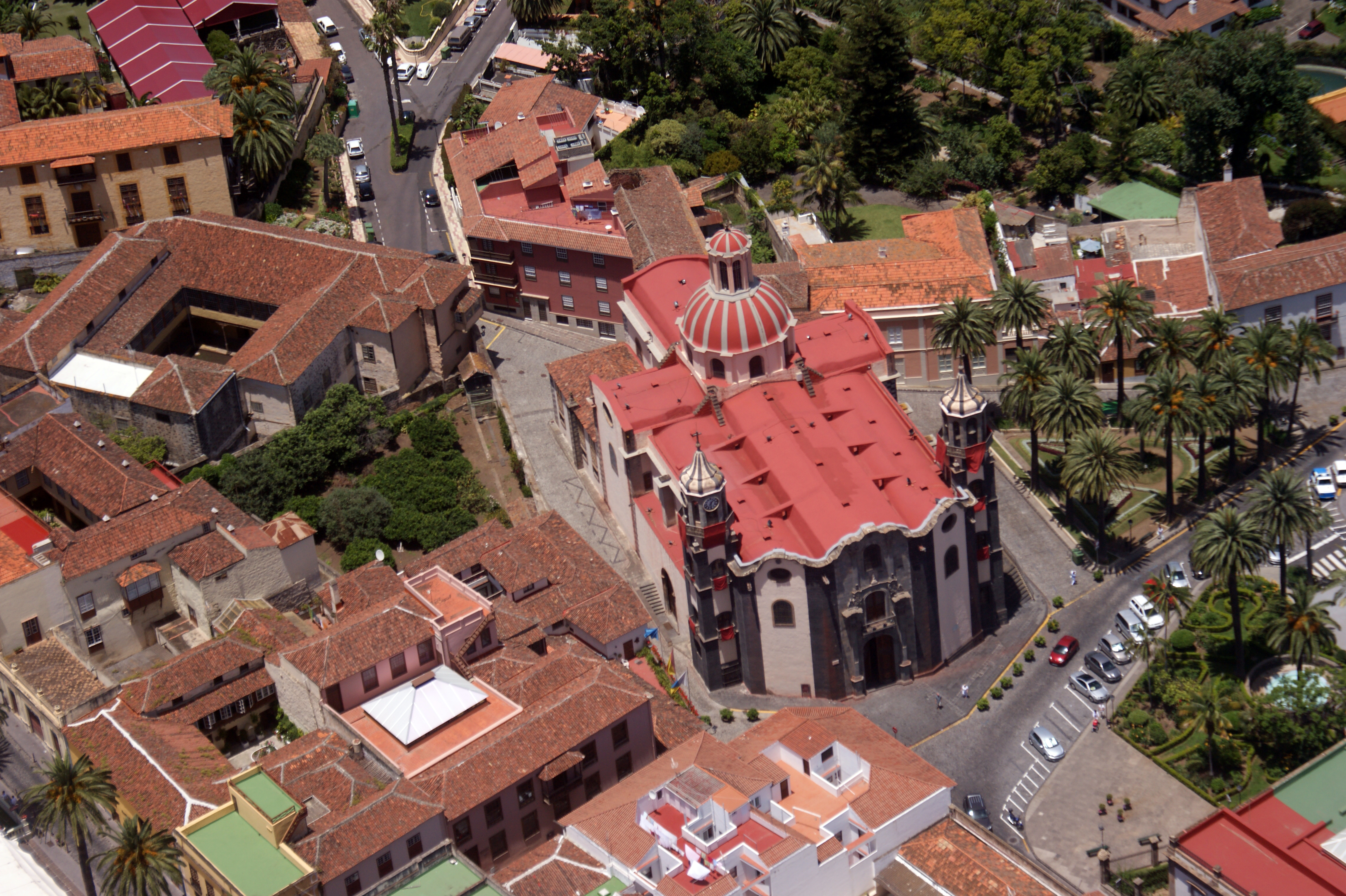 Vista aérea de la parroquia de La Concepción